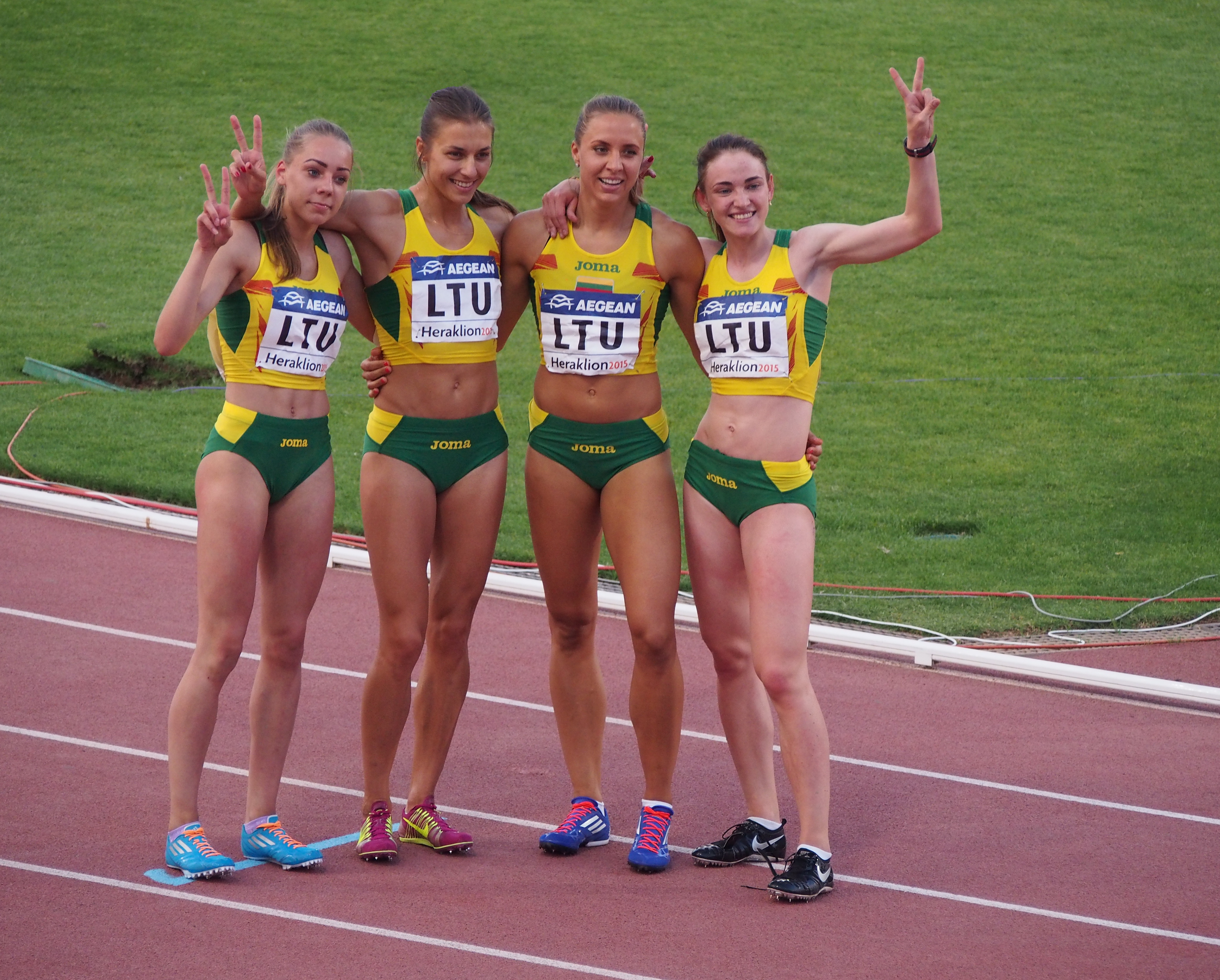 The Lithuanian team at 4x400 women's relay, after the end of the race. From left to right - Erika Kruminaitė, Eglė Balčiūnaitė, Eglė Staišiūnaitė and Eva Misiūnaitė